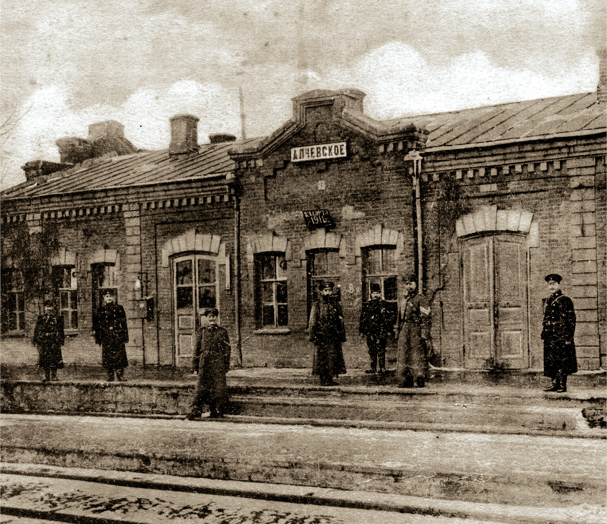 Train station Alchevskoe, Ukraine, 1911